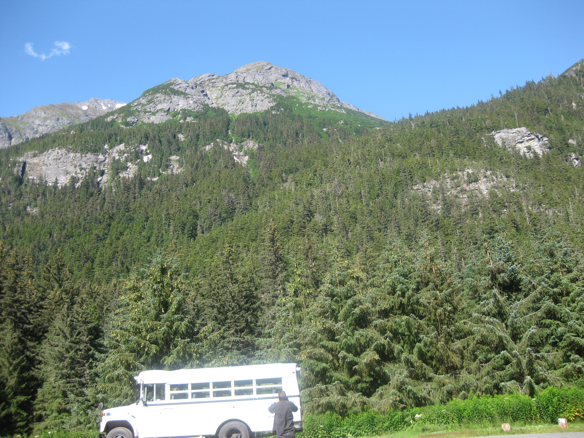 Catchment of Chilkoot lake